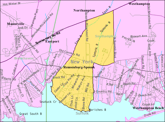 U.S. Census 2000 reference map for Speonk